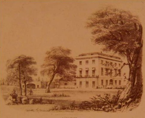 Bugle Hall, Southampton, England, from sales details in 1844.